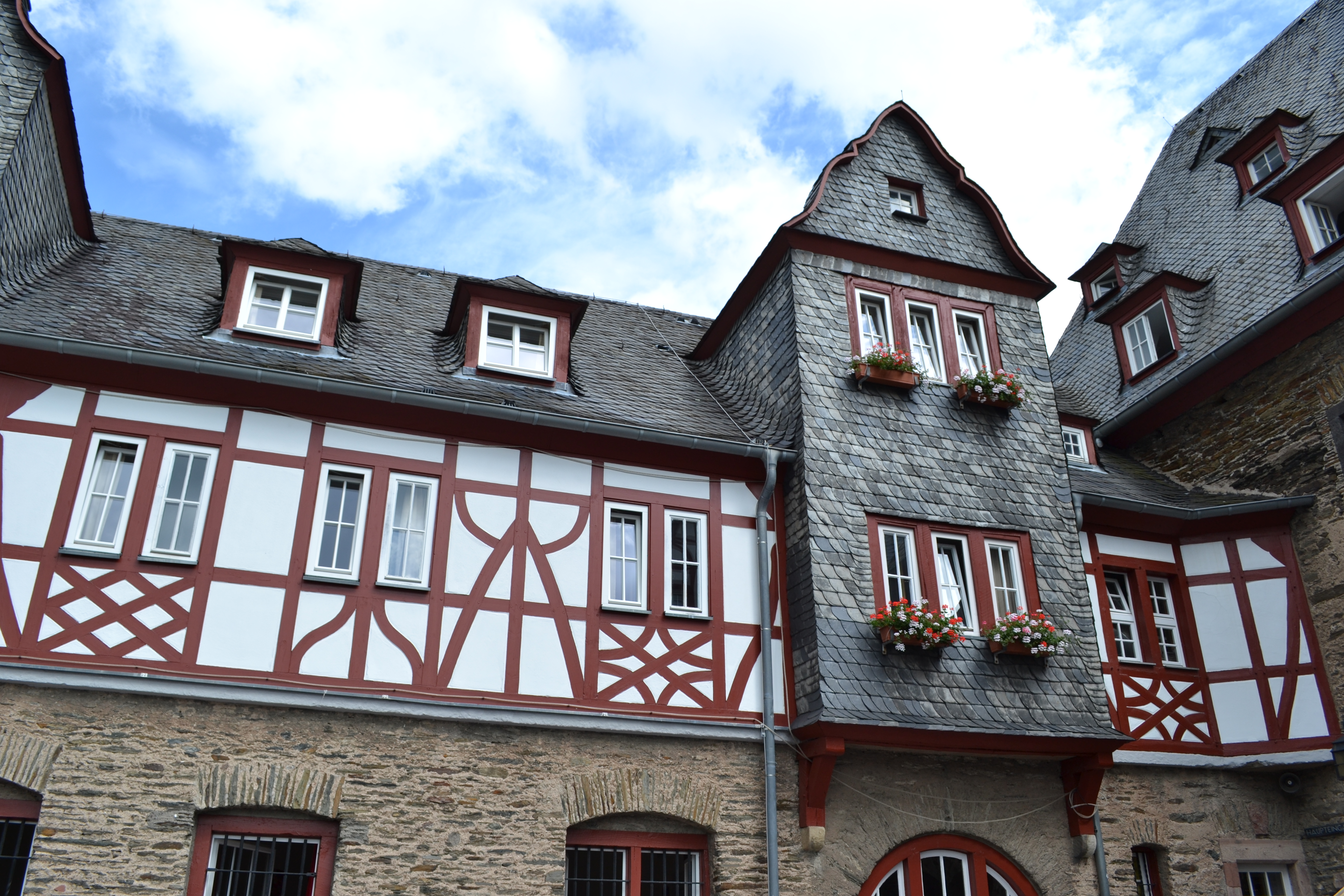 Stahleck Castle (now operating as a hostel), photo of 20th century rebuilding work